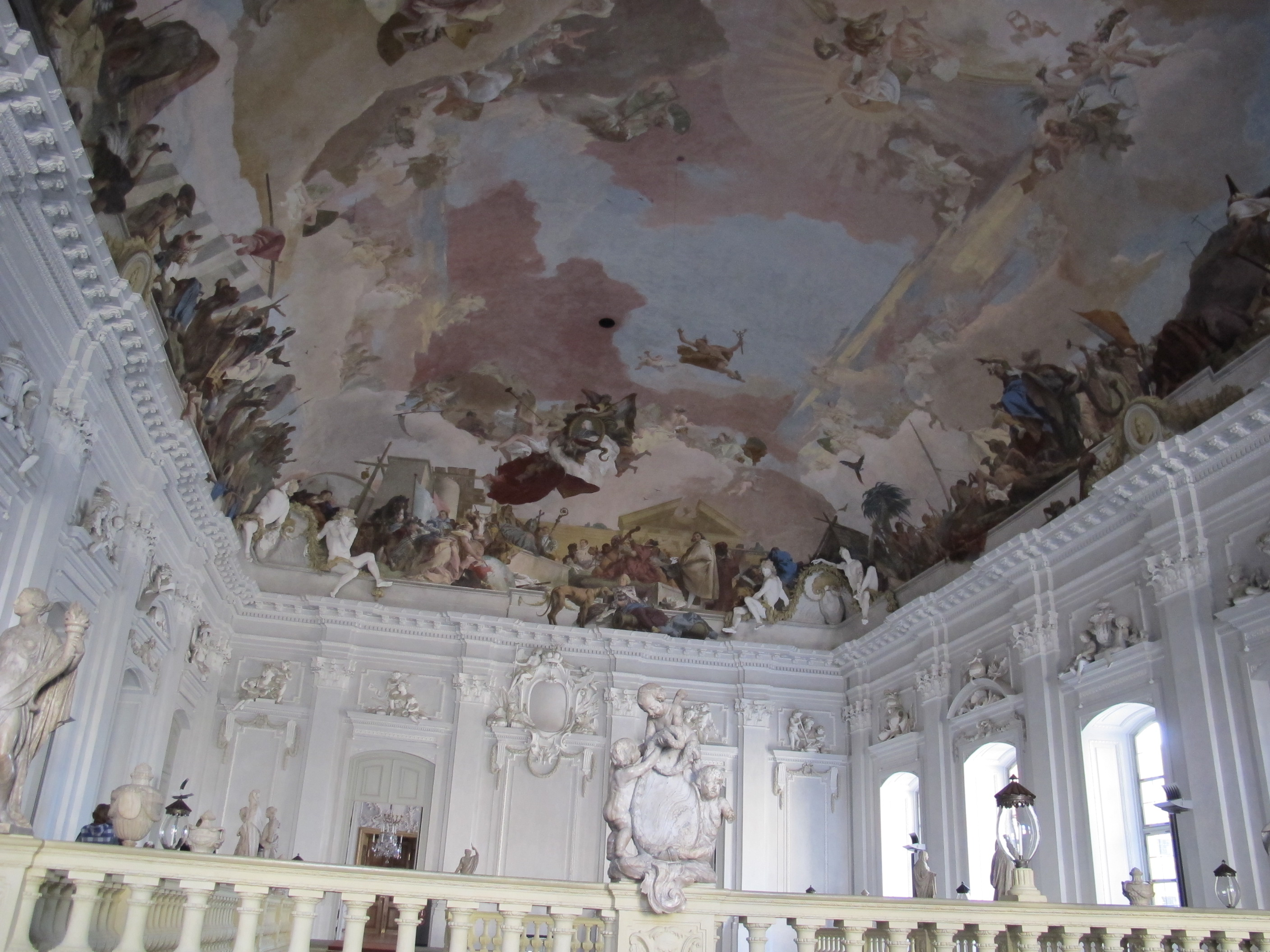 Apollo is in the center of heaven. Venus and Mars below him are resting on a cloud. Left side is the continent of America, below Africa and up Asia, Europe right